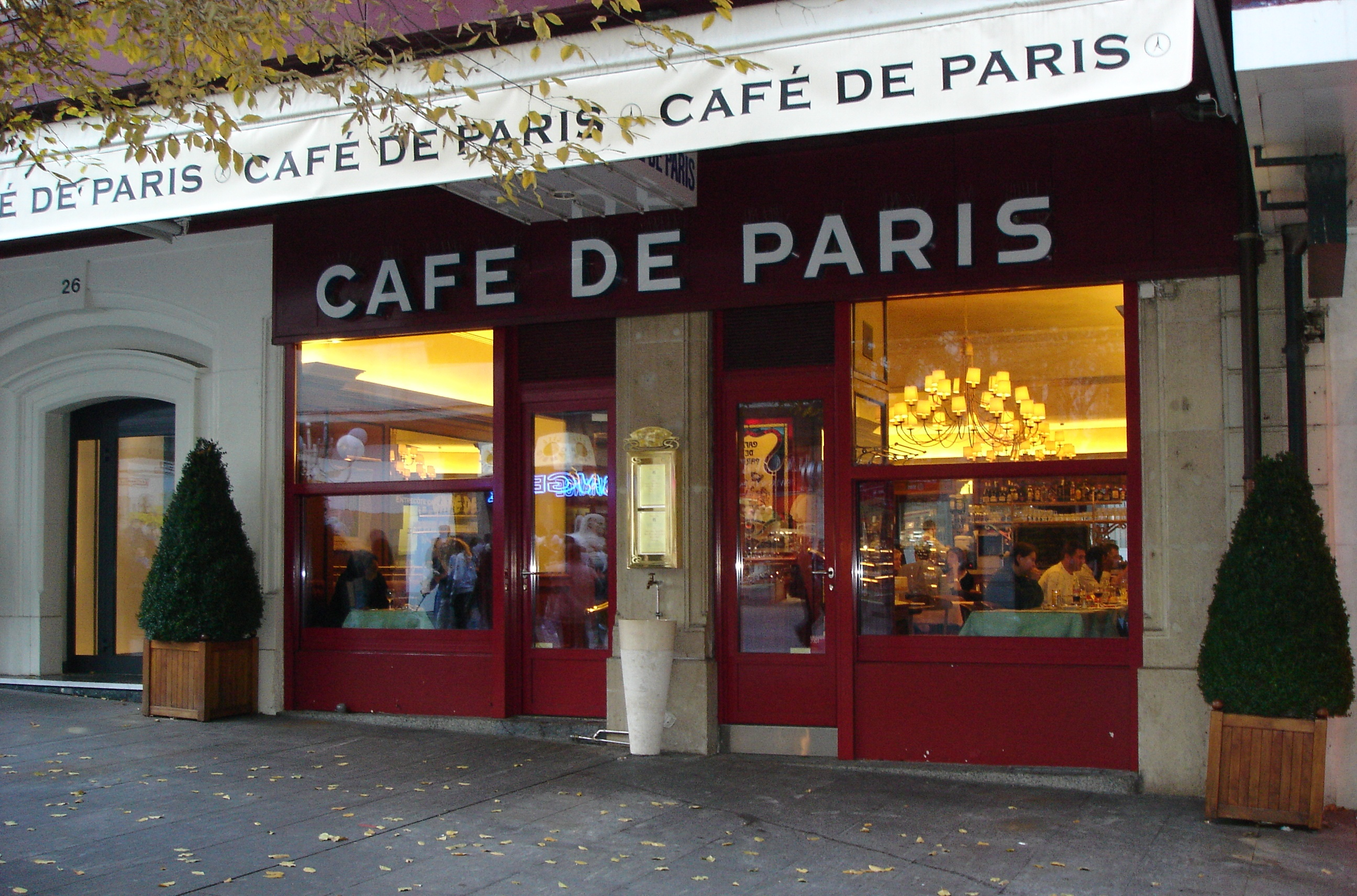 Café de Paris (26, rue du Mont-Blanc, Genève)